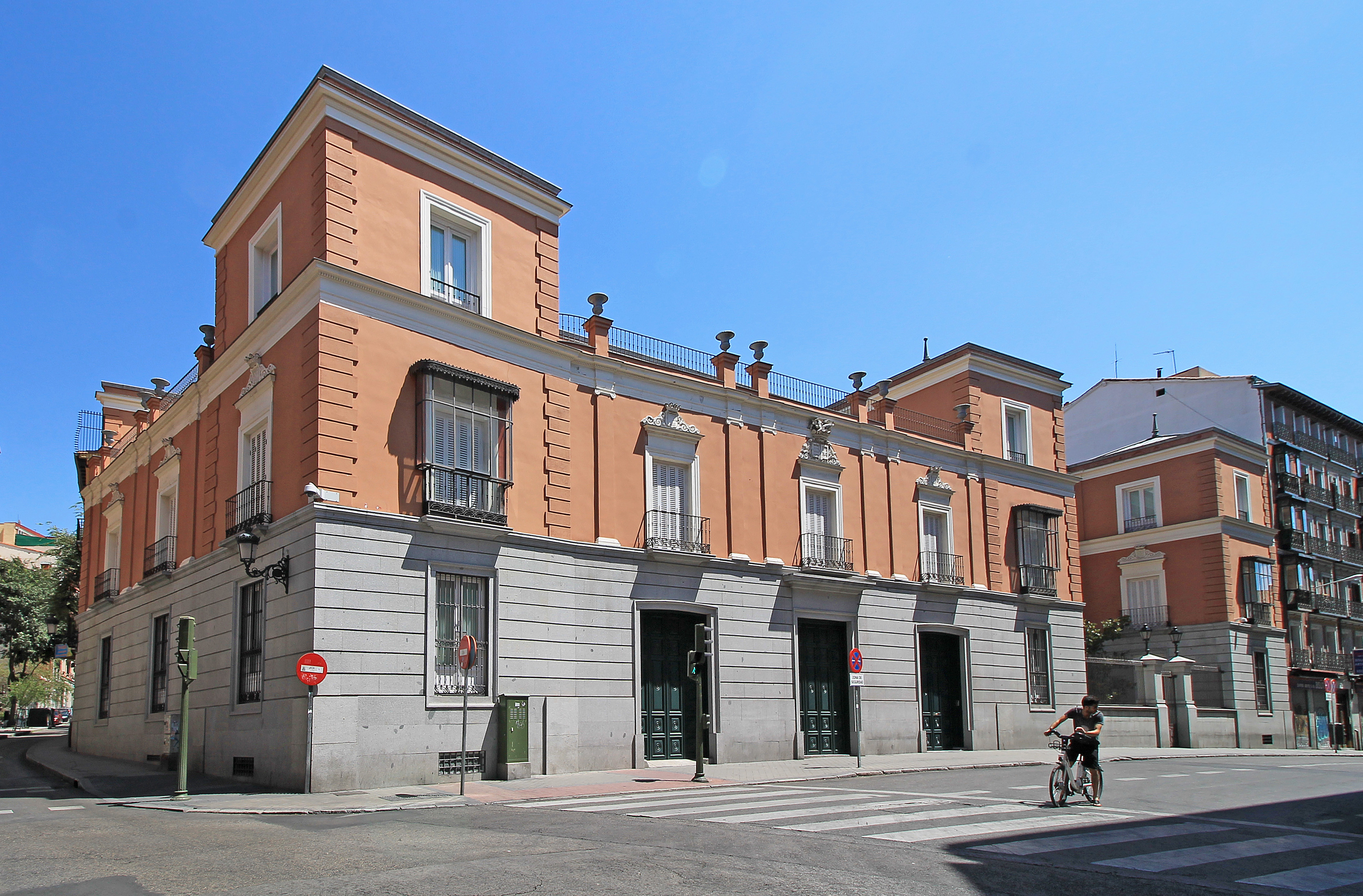 Façade of Viana Palace in Madrid (Spain).